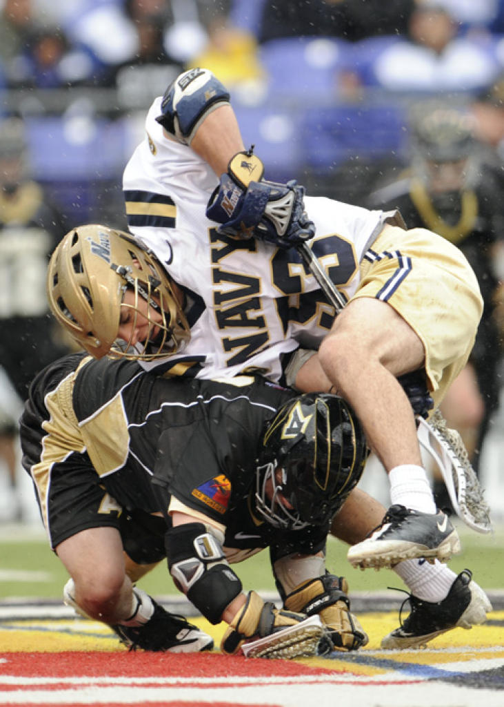 Army and Navy lacrosse players scramble for the ball during a face-off during the Day of Rivals at M&T Bank Stadium in Baltimore, Maryland on April 11, 2009.